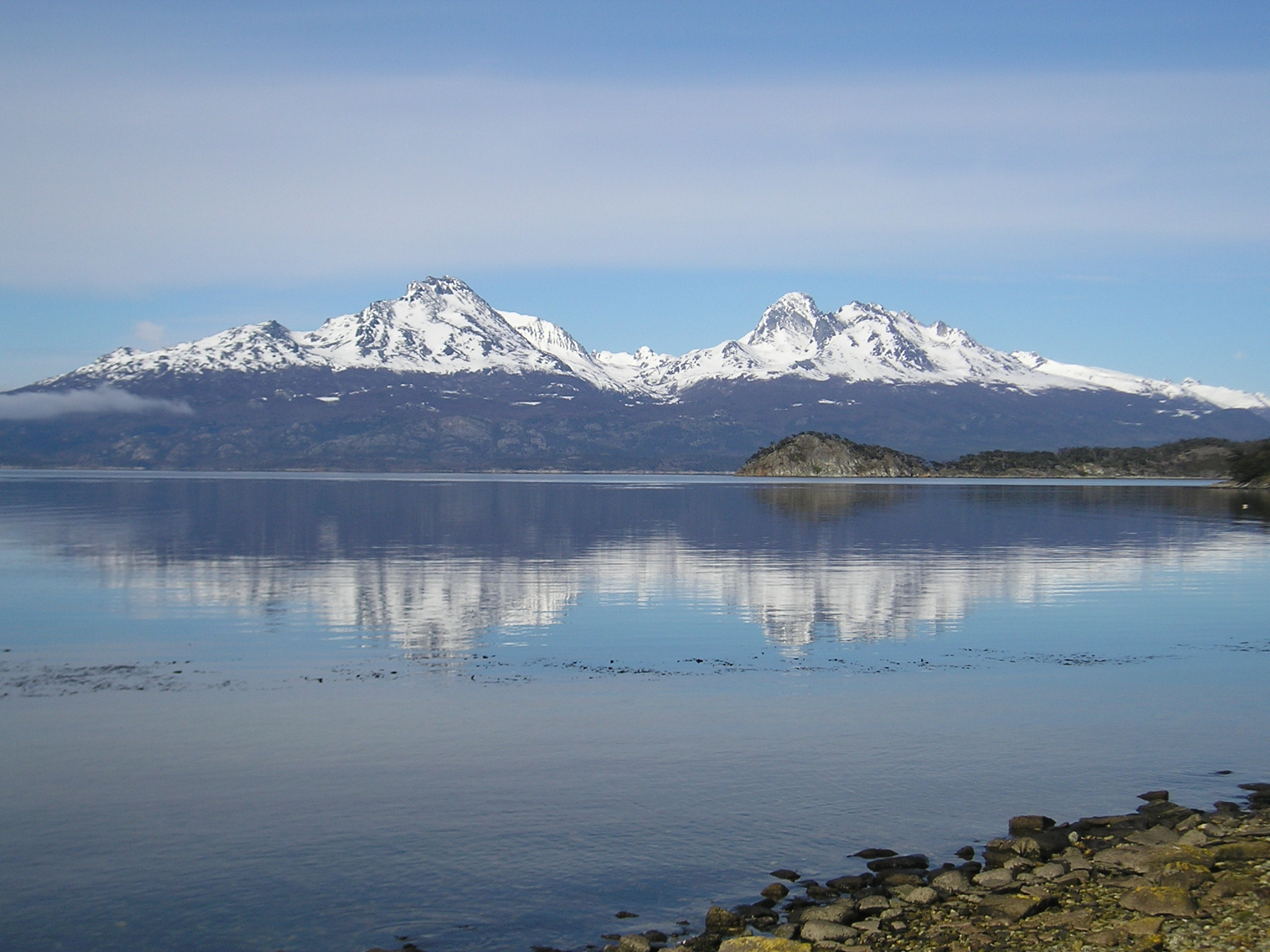 A view from the Tierra del Fuego Natioanal Park (Argentina) accross the Beagle Channel towards Isla Hoste (Chile)